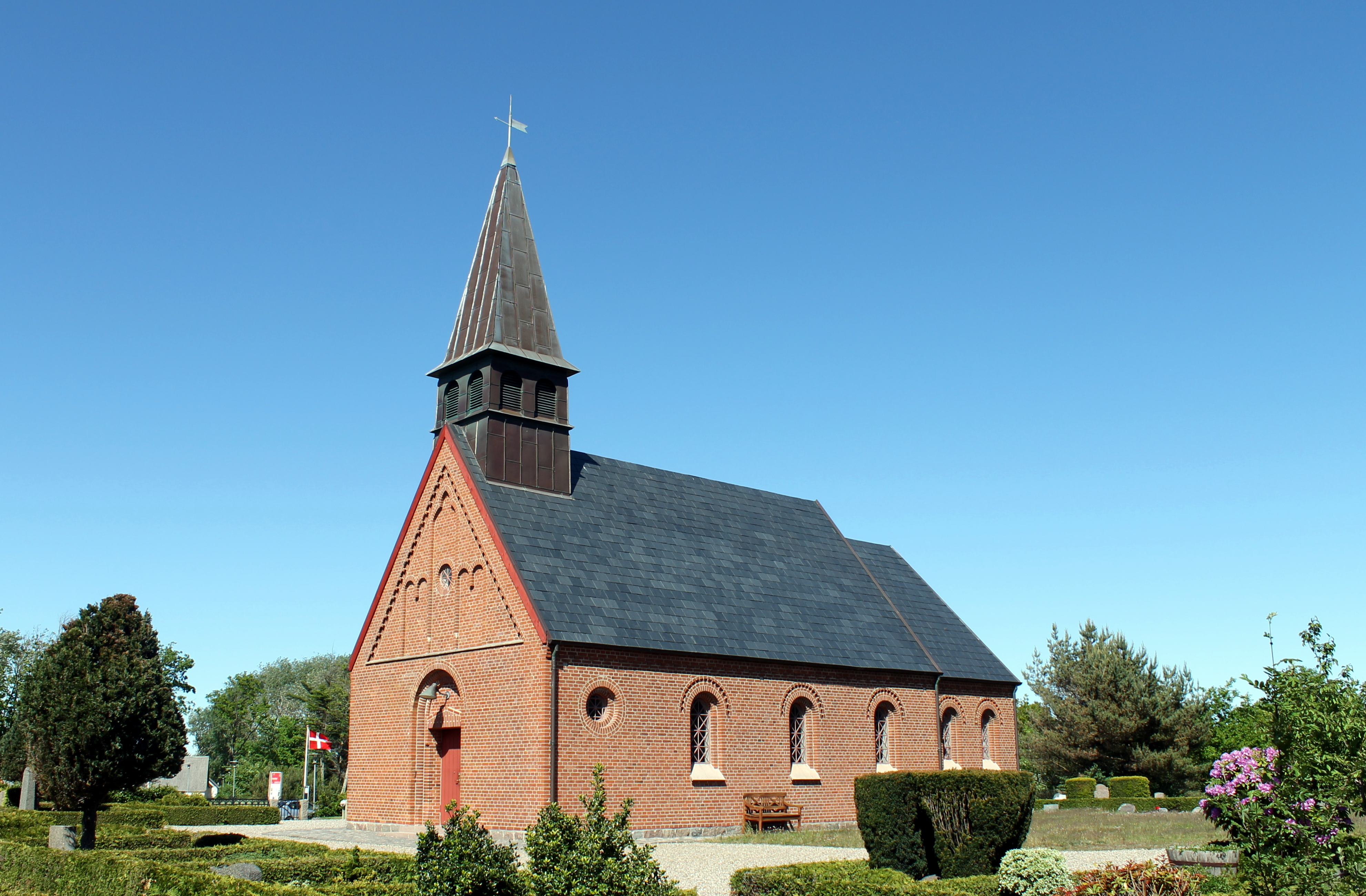 Hulsig Church in northern Denmark